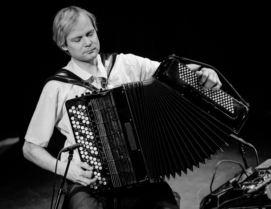 Frode Haltli in concert with Håkon Kornstad at Victoria Teater. The concert took place on 01. March 2018 in Oslo. Lineup: Håkon Kornstad (saxophone and vocal), Frode Haltli (accordion) and Mats Eilertsen (double bass).